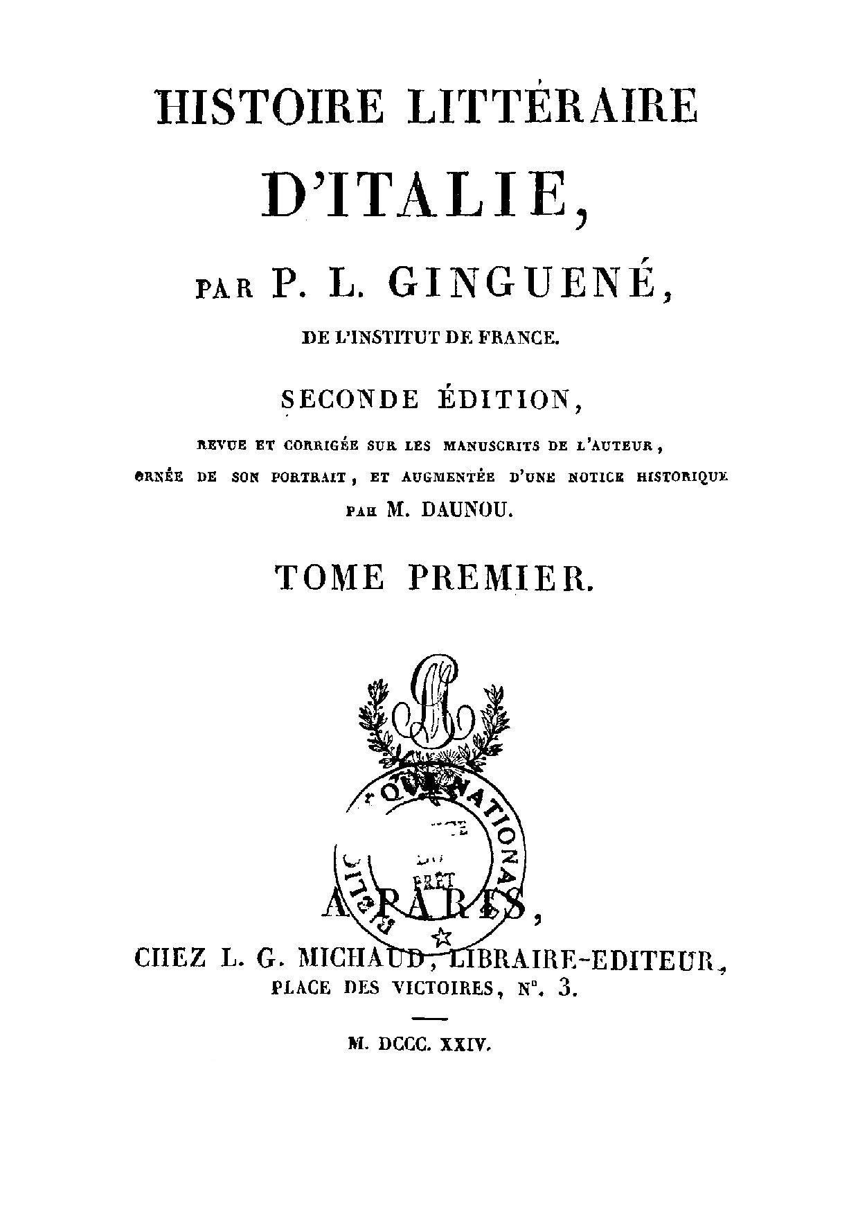 Title page of the first volume of Pierre-Louis Ginguené's Histoire littéraire d'Italie L.-G. Michaud (Paris) 1824, Pierre-Claude-François Daunou, ed., 9 vol. ; in-8.